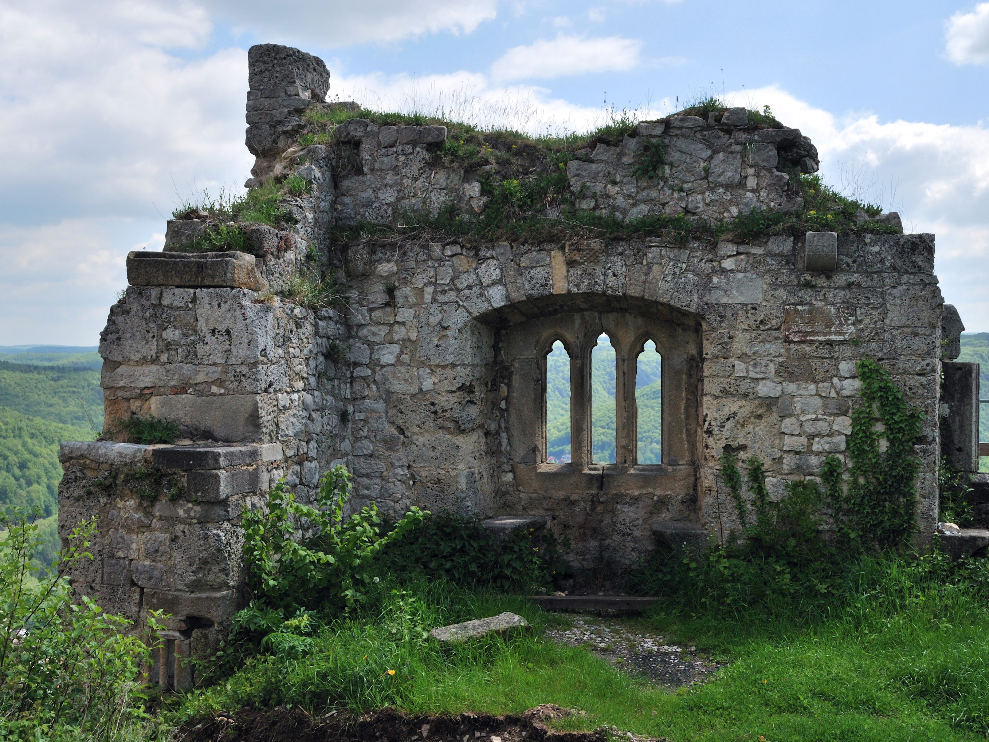 Wall remains on the castle ruin Hohenurach in Swabian Jura in the German Federal State Baden-Württemberg.